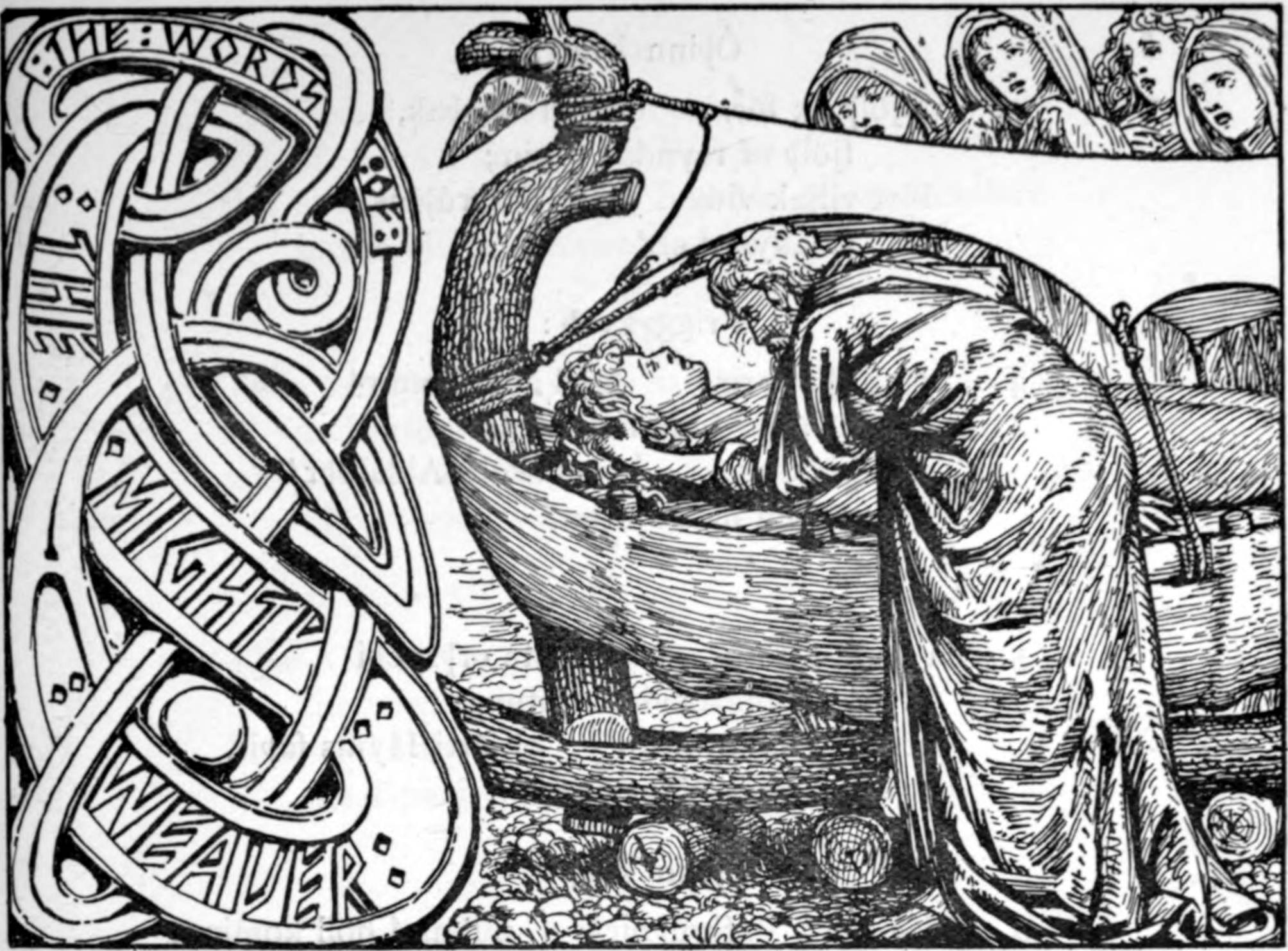 The god Odin whispers in the ear of the dead Baldr, lying in the boat. The list of illustrations in the front matter of the book gives this one the title Odin's_last_words_to_Baldr.